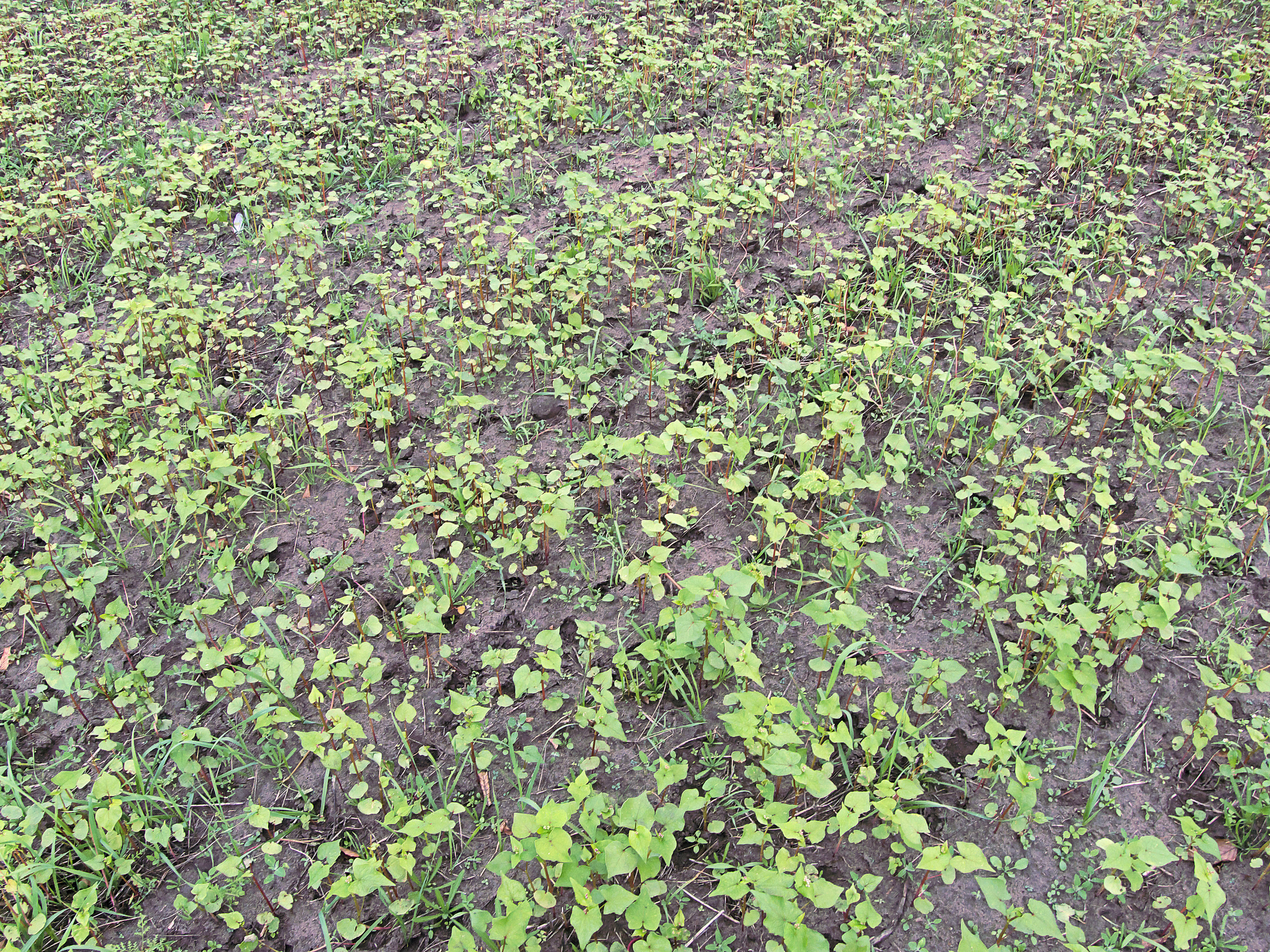 Fagopyrum esculentum yong plants from seed shedding